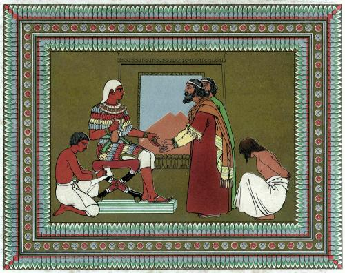 Illustration by Owen Jones from "The History of Joseph and His Brethren" (Day & Son, 1869). Scanned and archived at where it was marked as Public Domain. Text from Book: And the Midianites sold him into Egypt unto Potiphar, an officer of Pharaoh's and captain of the guard. Genesis, C. XXXVII. V. 36.